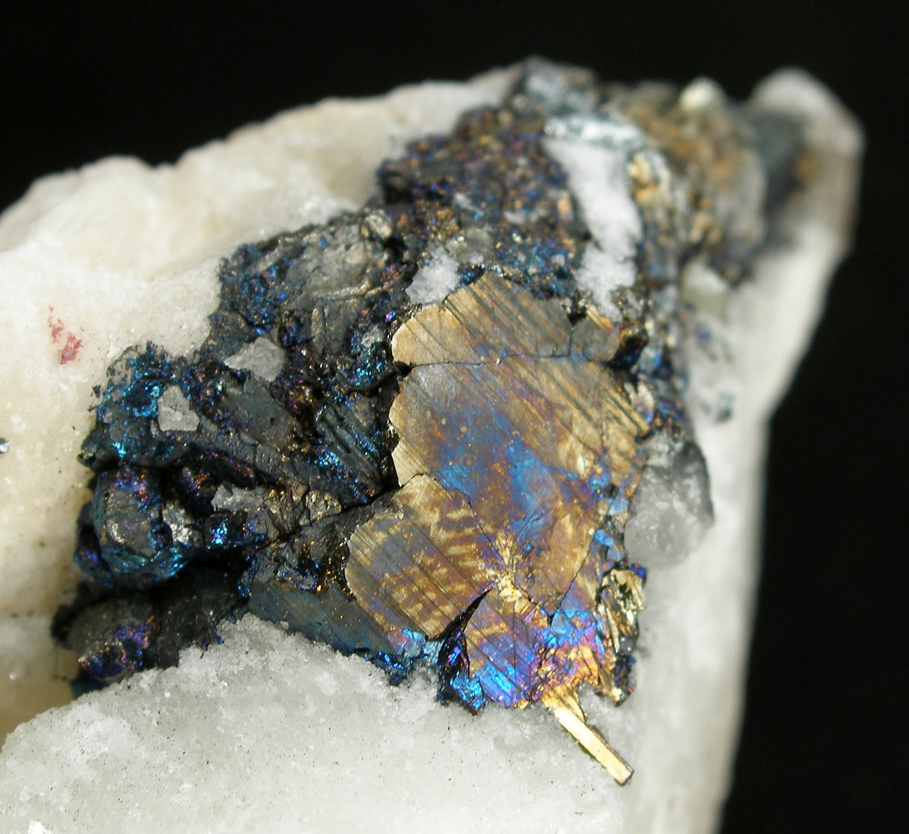 Seligmannite, Wurtzite Locality: Lengenbach Quarry, Im Feld (Imfeld; Feld; Fäld), Binn Valley, Wallis (Valais), Switzerland (Locality at ) Size: small cabinet, 6.2 x 3.3 x 3.1 cm Seligmannite and Wurtzite From the TYPE LOCALITY for this rare species, this specimen features a row of sharp, 1-2mm seligmannite crystals in a protected cavity of sugary dolomite matrix. Atop the cluster , or accenting at its base depending on view, is a large , flatlaying, 1 cm wurtzite crystal. A rich specimen overall, and with the wurtzite a lot more to look at than most seligmannites, as a display specimen. From the collection of a longtime Lengenbach collector, which was sold off recently.